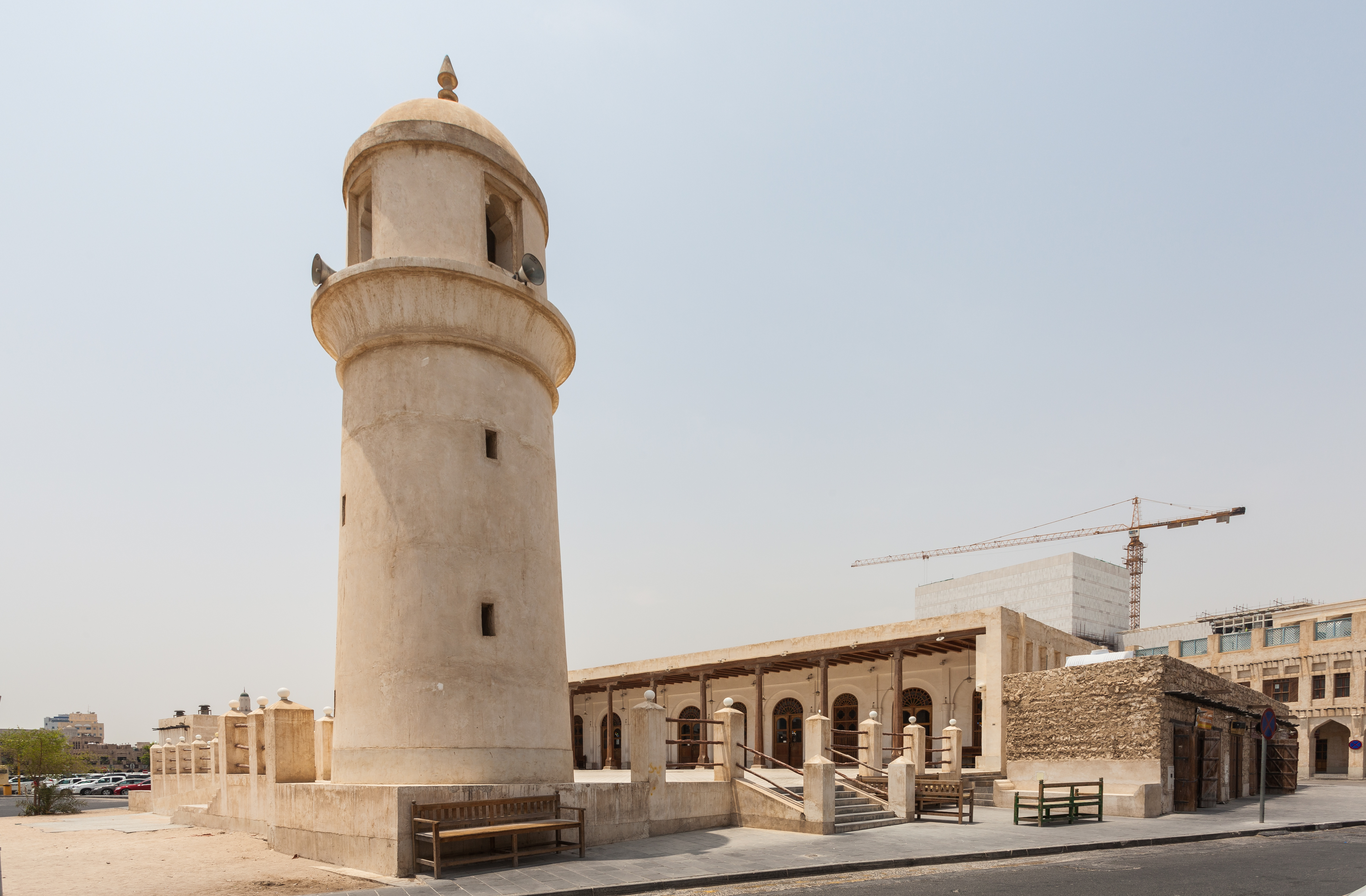 Souq Waqif, Doha, Qatar